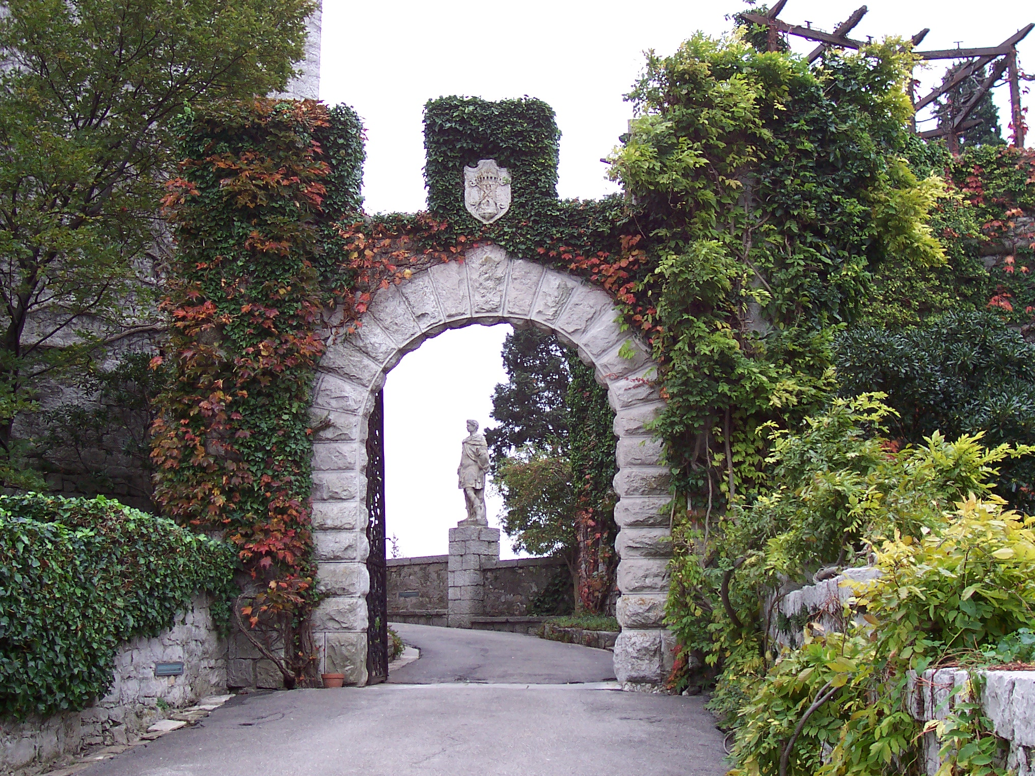 Ingresso al castello Source photographed by myself Photographer Pier Luigi Mora Date 31 october 2005 Camera Data Camera Kodak CX6330 zoom digital camera